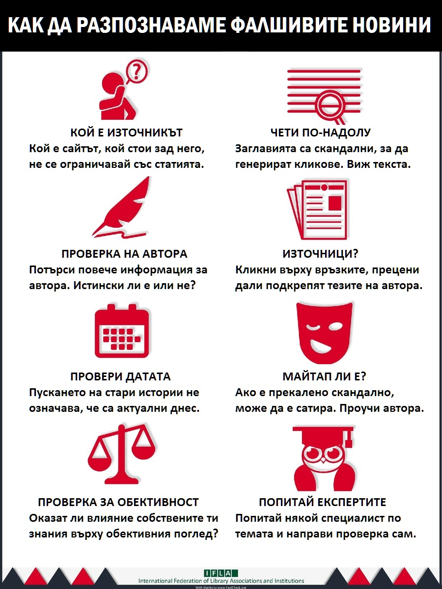 Bulgarian translation of the IFLA infographic, based on the original "How to Spot Fake News" file.